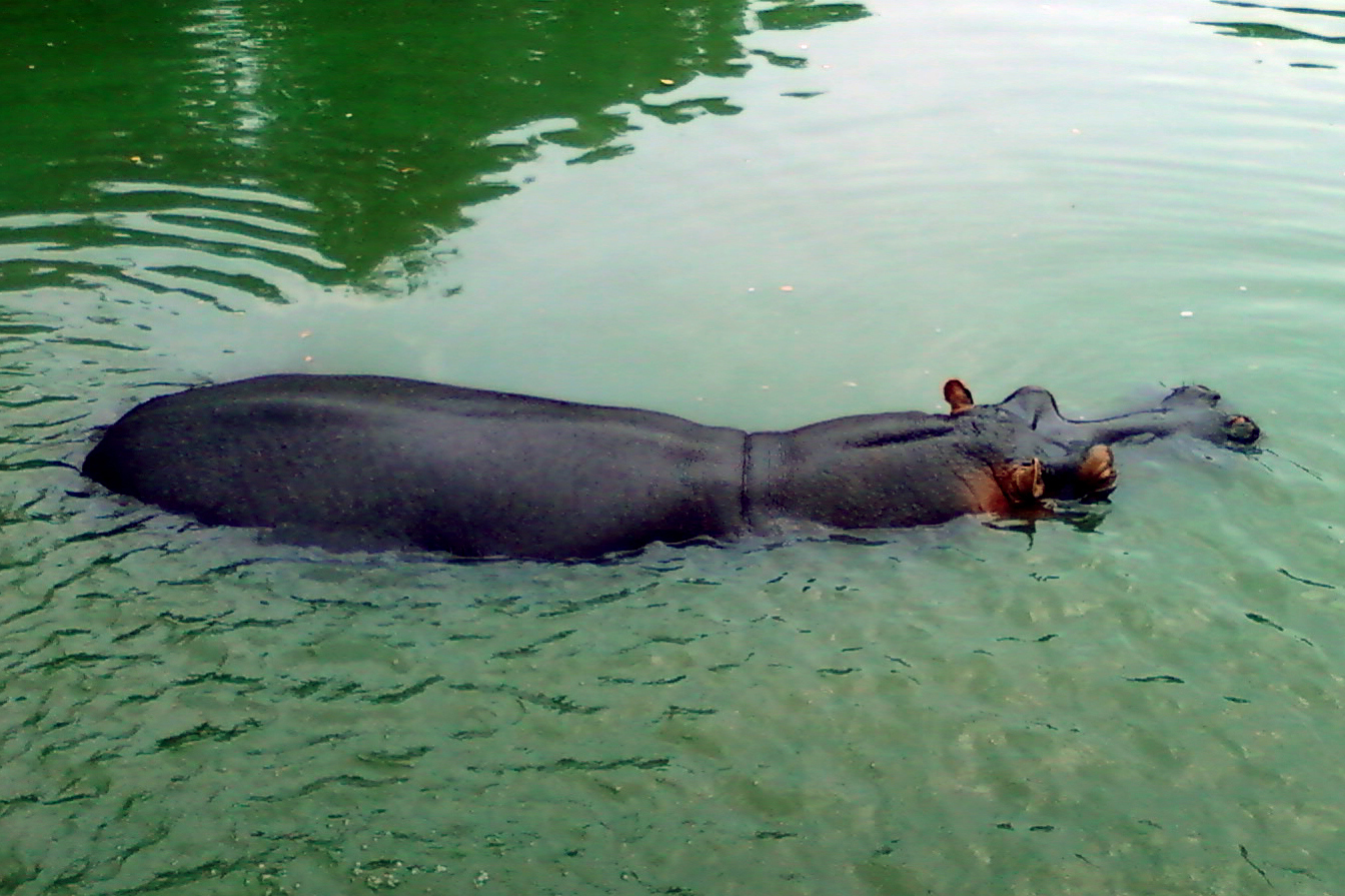 Resting Hippopotamus at Indira Gandhi Zoo park in Visakhapatnam